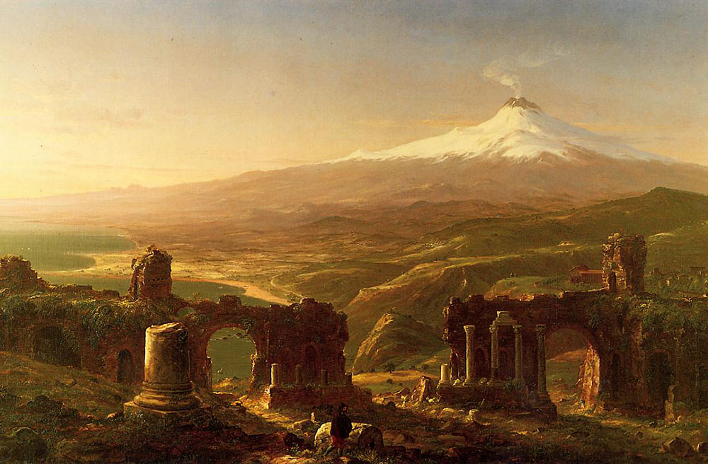 Mount Aetna from Taormina 1843 by Thomas Cole.